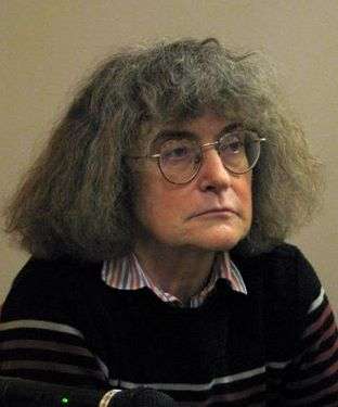 Ewa Bieńkowska (b. September 13, 1943 in Warsaw, Poland) - Polish writer, essayist, publicist and translator. She lives in Versailles, France